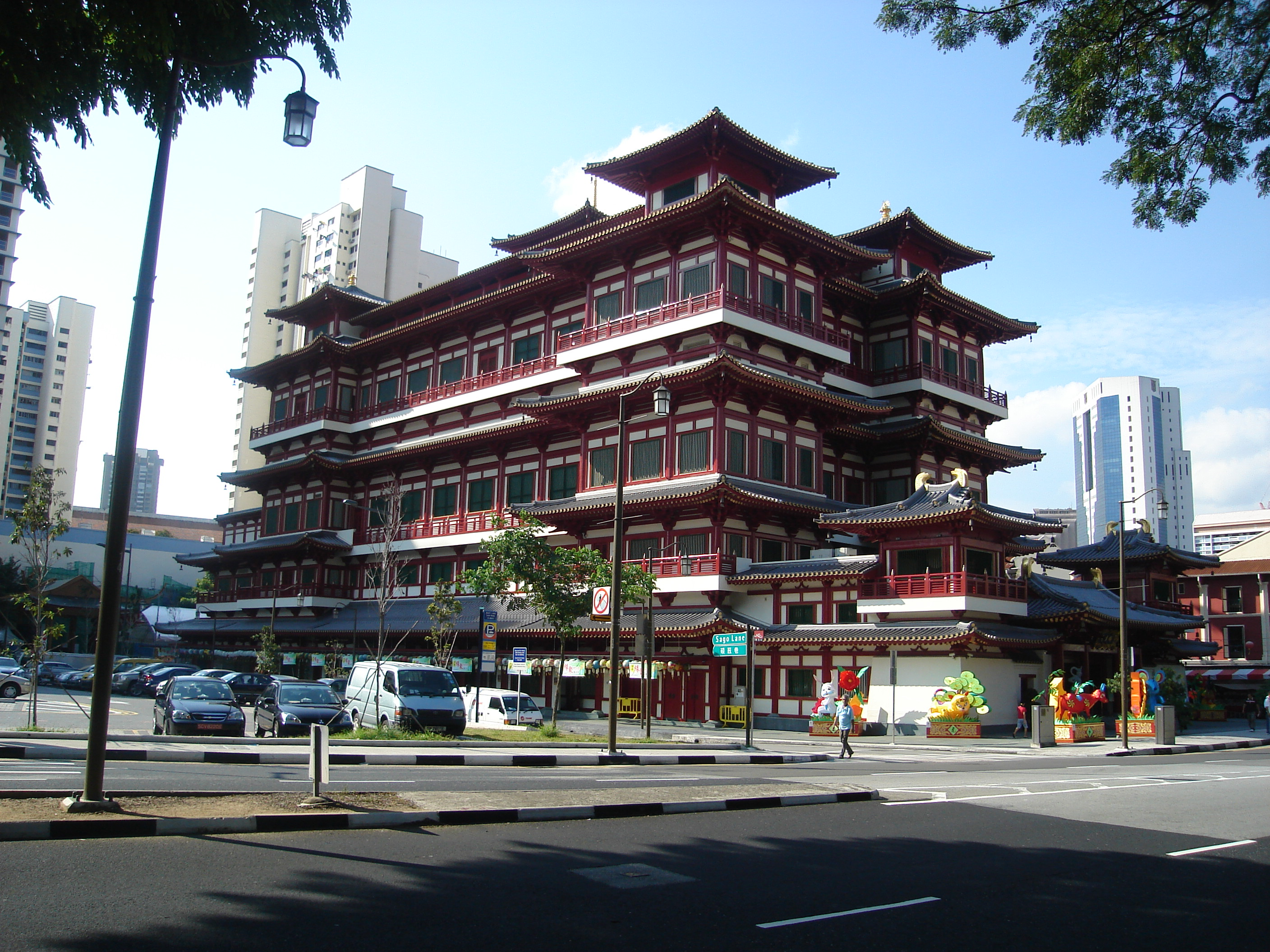 Buddha Tooth Relic Temple in Chinatown, Singapore.